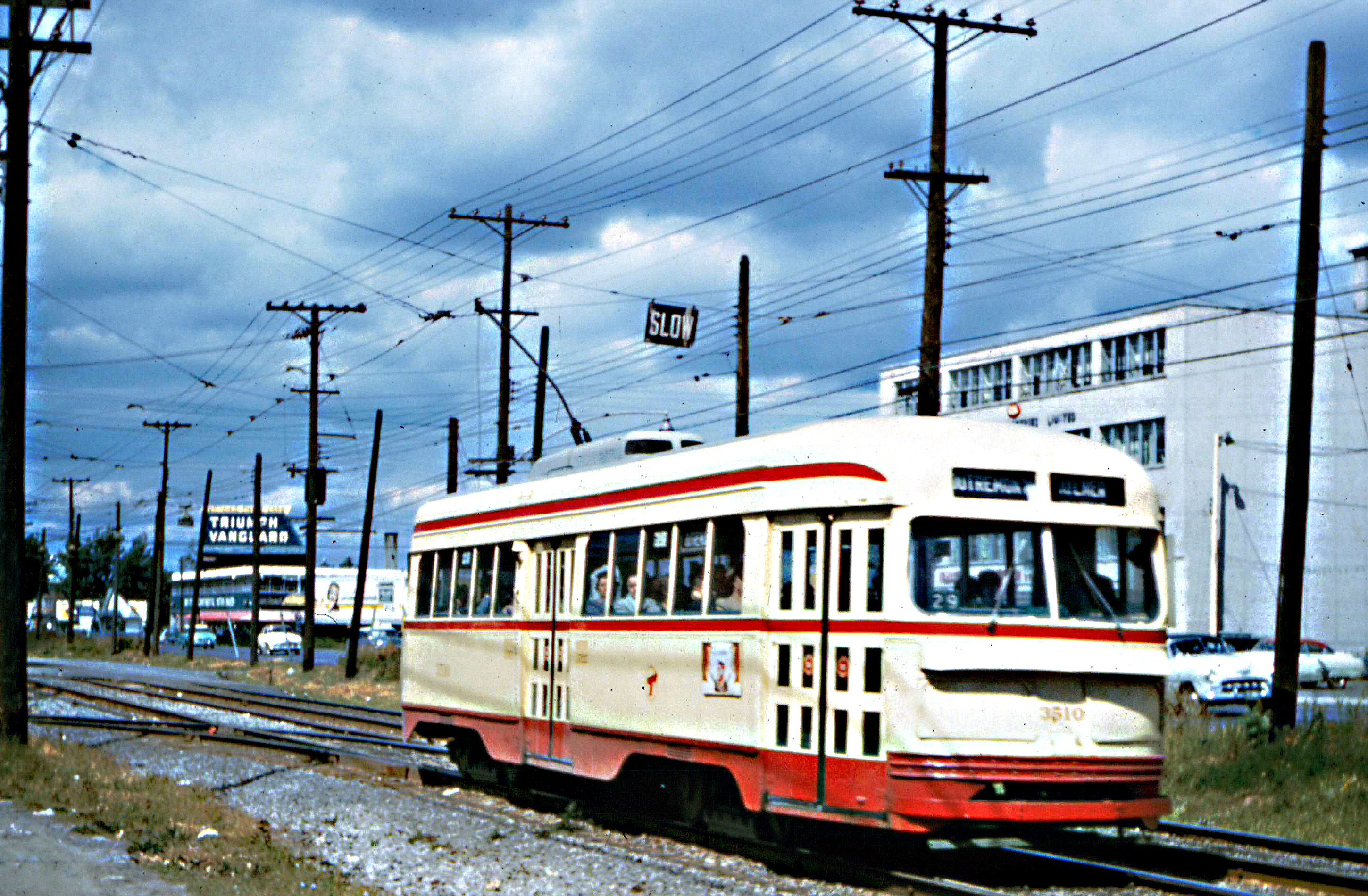 PCC car 3510 in Montreal, Quebec, Canadaon the Outremont Line (29)